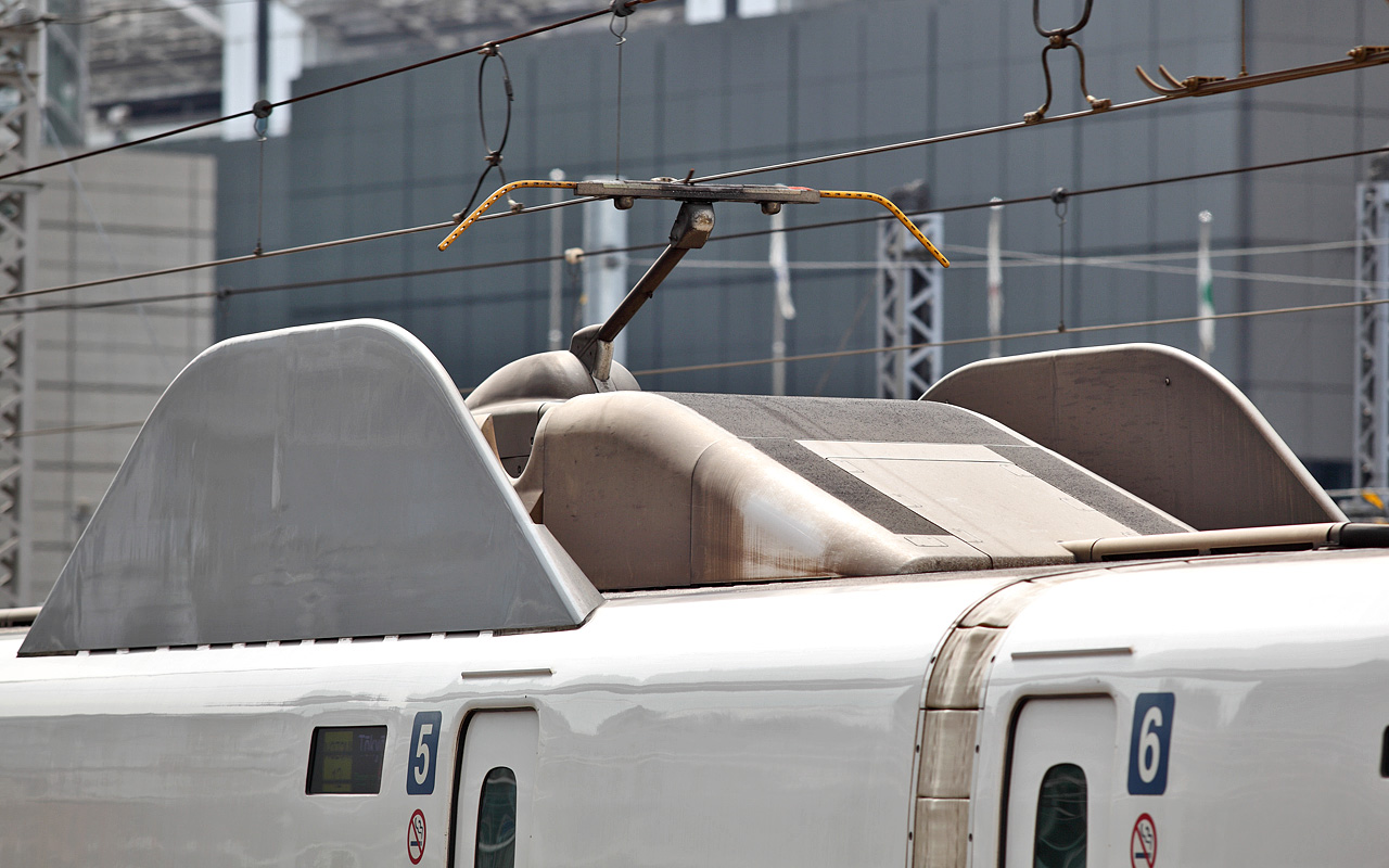 Z shaped pantograph of N700 series Shinkansen train.